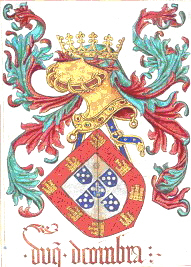 Arms of the second Duke of Coimbra, Dom Jorge, close-up cut in the 1509 original work of Jean du Cros book "Livro do Armeiro-Mor at the National Library, in Lisbon.